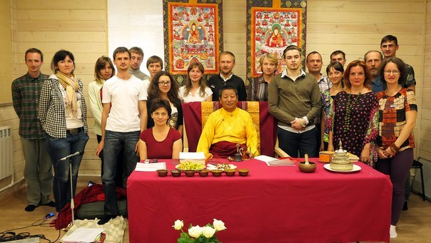 Sangye Cho Ling Buddhist registered community in Yaroslavl